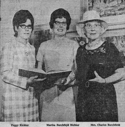 Buffalo Courier-Express, Photograph of Peggy Richter, Martha Burchfield Richter, and Mrs. Charles Burchfield, c.1968; newsprint; Image courtesy of Burchfield Penney Art Center Archives.